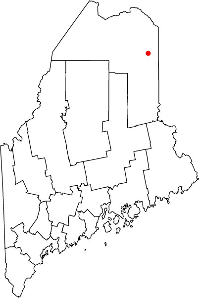 Map of the state of Maine with County Outlines, highlighting Presque Isle.